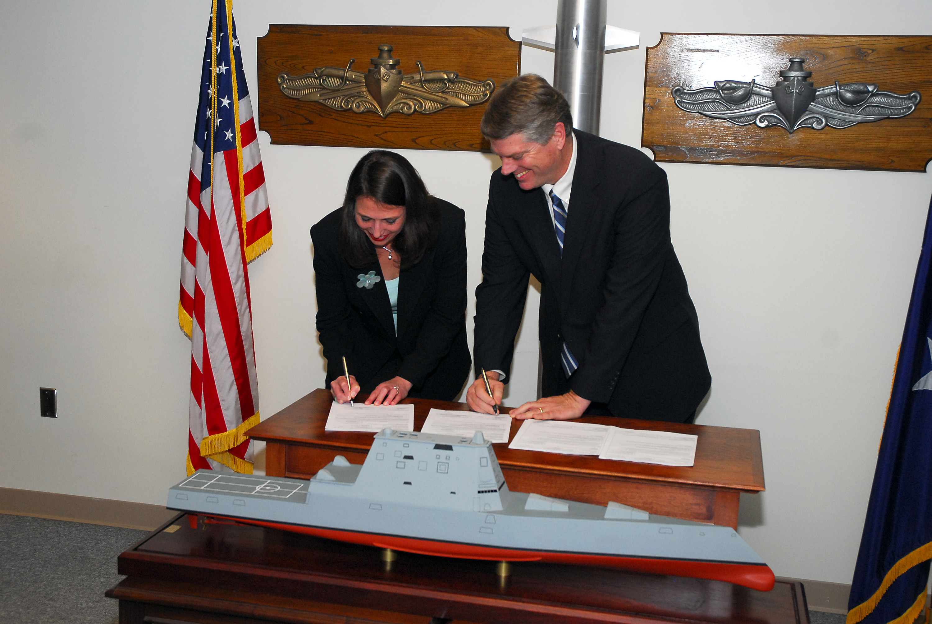 WASHINGTON (Feb. 14, 2008) Susan Tomaiko, left, contracting officer for Naval Sea Systems Command (NAVSEA), and Brian Cuccias, vice president and DDG 1000 program manager for Northrop Grumman Shipbuilding, sign the $1.4 billion construction contract for the DDG 1000 Zumwalt Class destroyer at a contract signing ceremony at the Pentagon. U.S. Navy photo by Mass Communication Specialist 2nd Class Dustin Gates (Released)